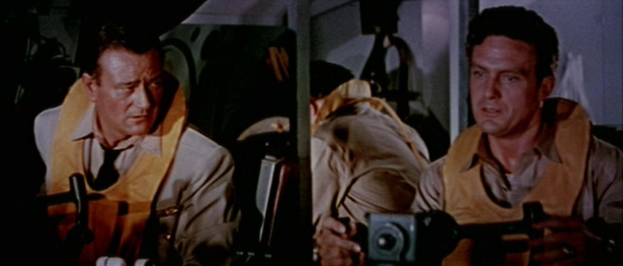 Screenshot showing John Wayne, Wally Brown, and Robert Stack from the film The High and the Mighty (1954).